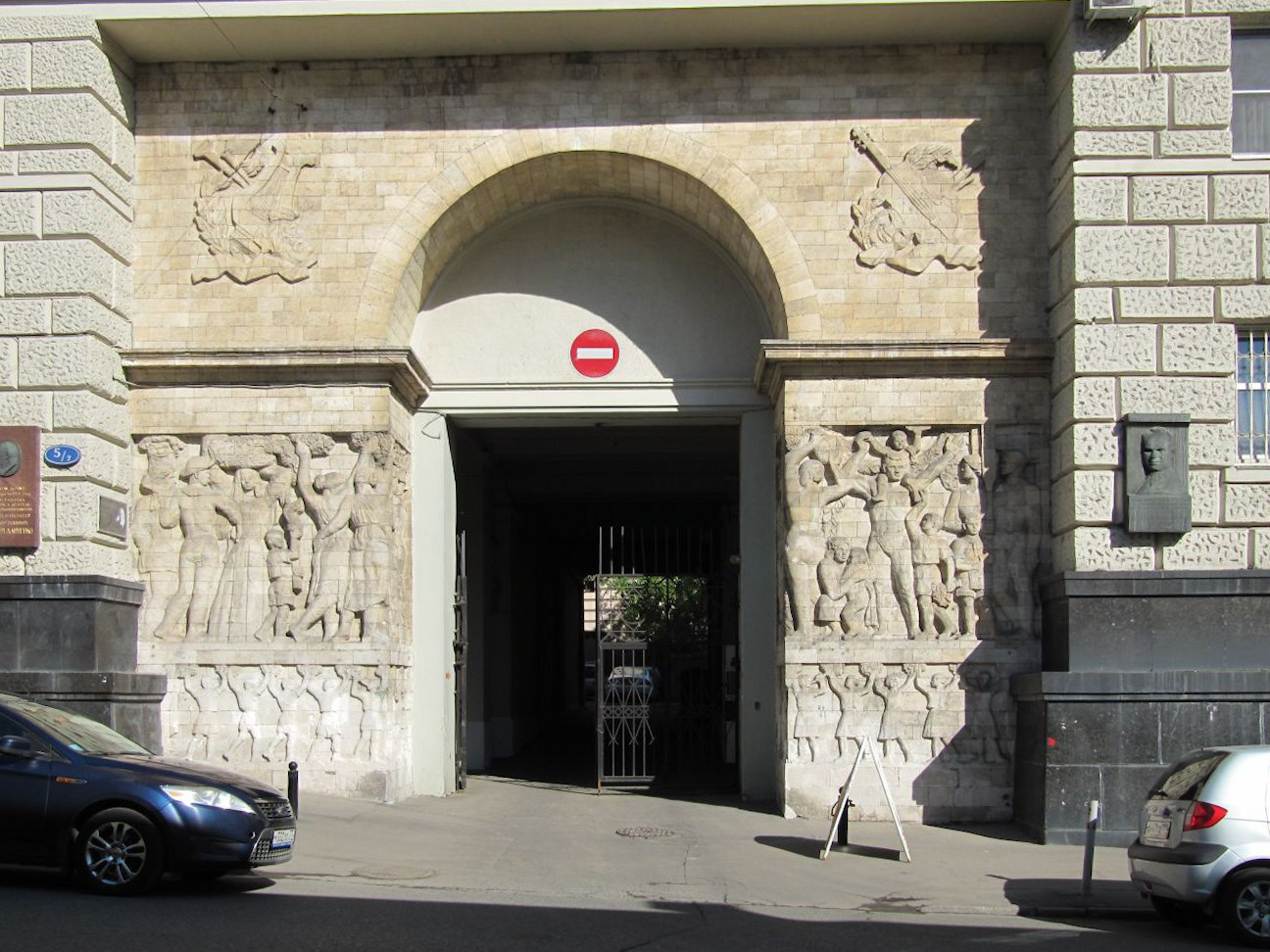 Moscow, Glinischevsky Lane, 5/7. This house was built in 1938 by architect V. Vladimirov and intended for actors of Moscow Art Theater. Here is a memorial V.I.Nemirovich- Danchenko Apartment Museum